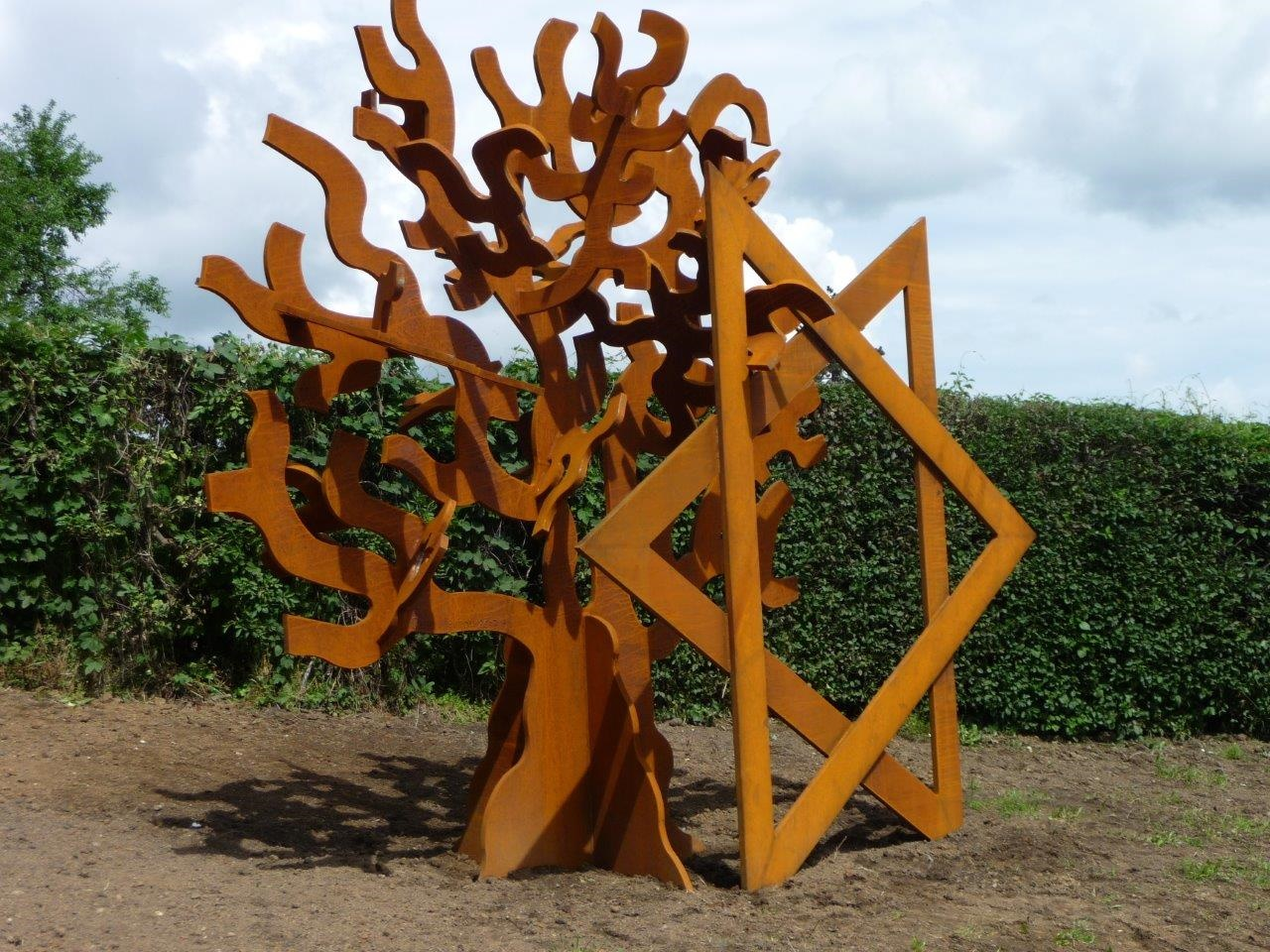 Peace in Heaven 2013 Đakovo Croatia by Dina Merhav, in Memory of The Holocaust victims from Đakovo concentration camp.